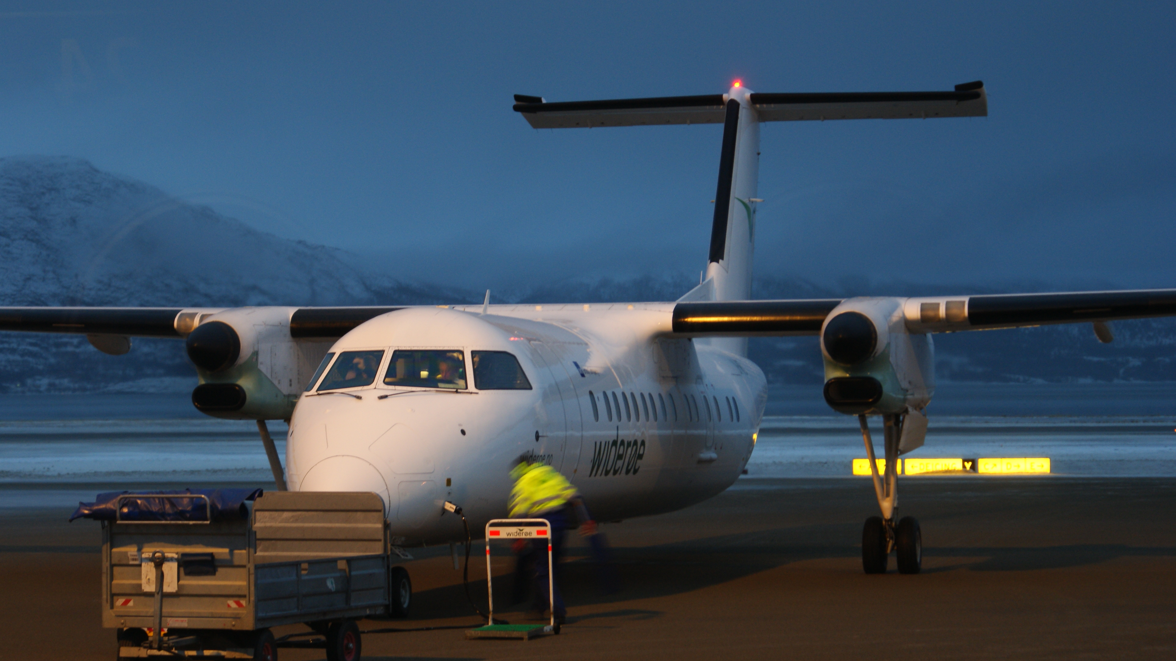 Alta Airport, Finnmark, Norway. Widerøe Bombardier Dash-8 311 incoming from Tromsø, bound for Lakselv.